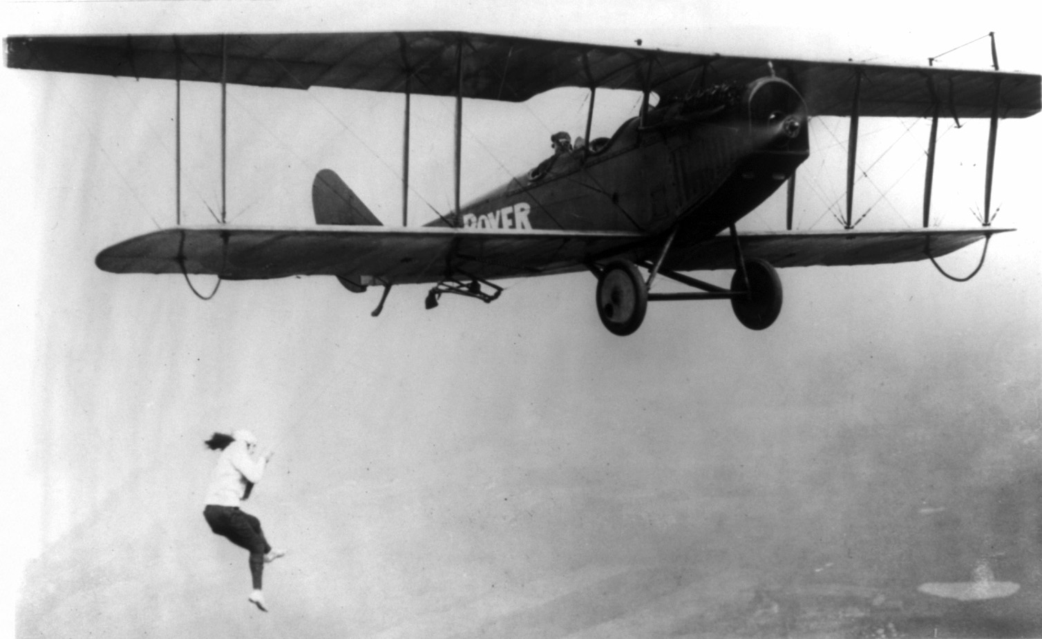 Lillian Boyer doing a stunt called the "breakaway" from a flying biplane